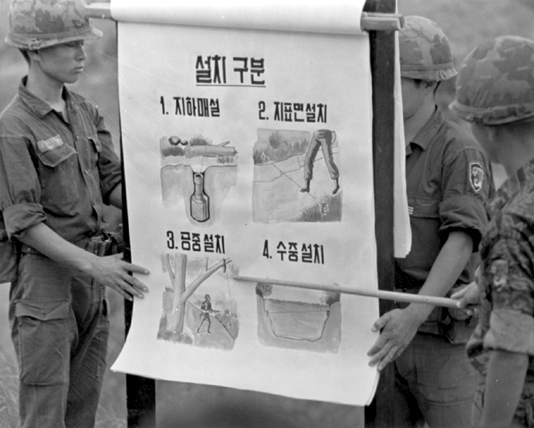 Korean troops use chart to show villagers types of Viet Cong booby traps